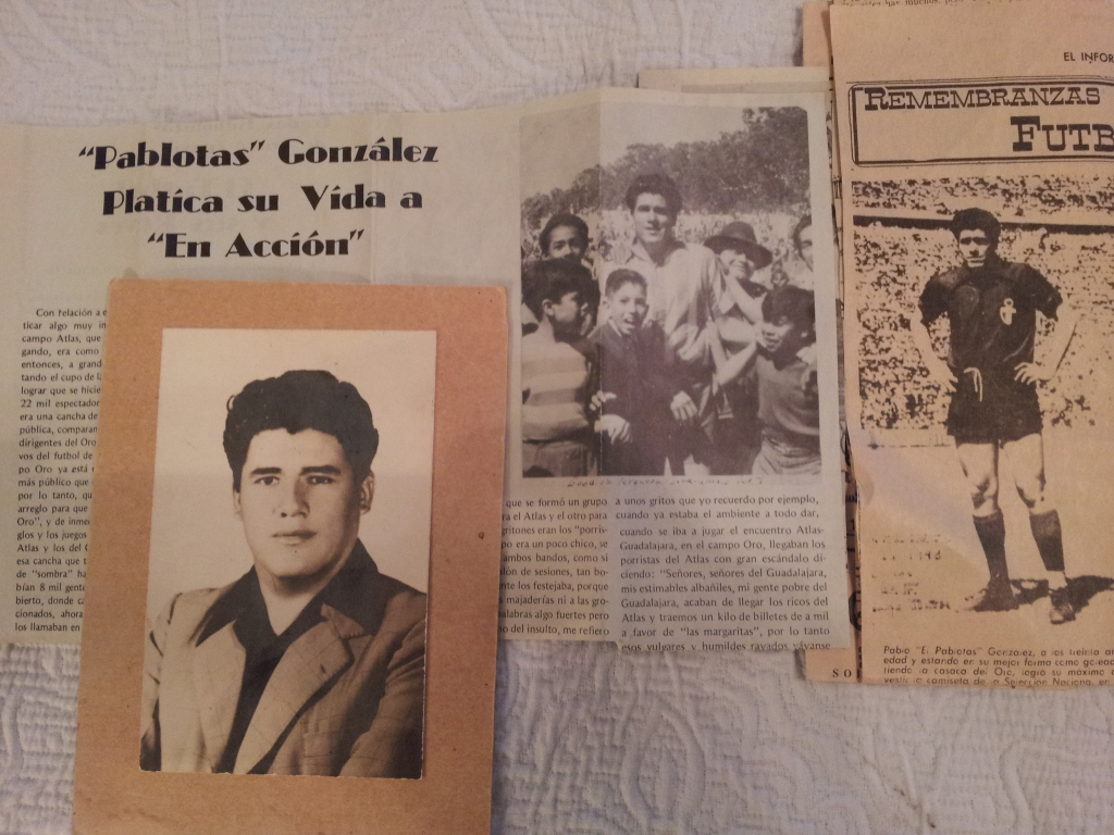 News Clippings and photos of my Grandfather Pablo González Saldaña